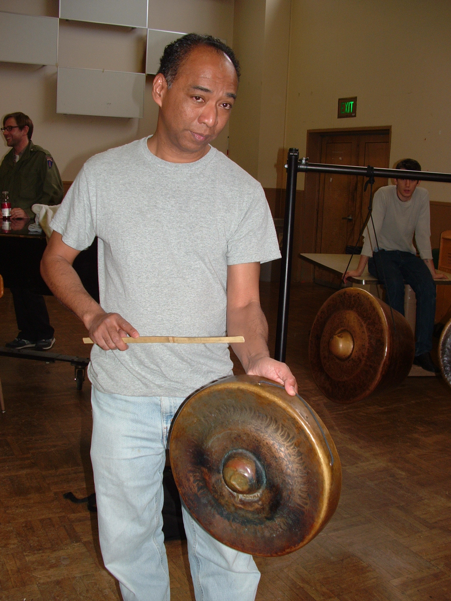 The singular Philippine handheld gong known as the babendil used as a "timepiece" in the kulintang ensemble. This instrument in particular is used by Master Danongan Kalanduyan at San Francisco State to teach his kulintang class.